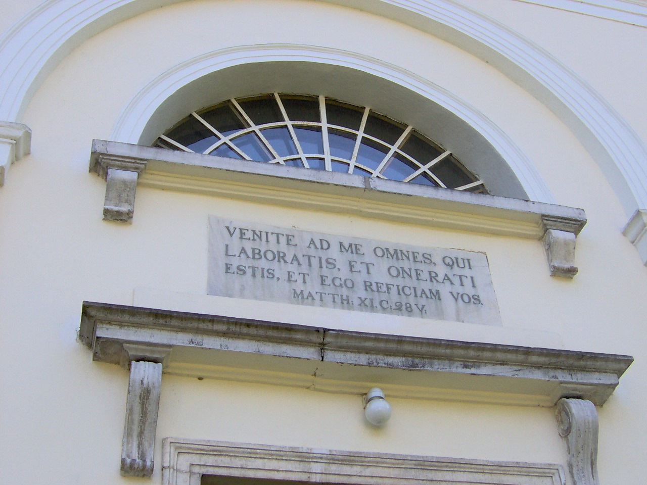 Detail of the portal of the Church of "Virgin Mary the Health of the sick" (with a quotation from the Gospel of Matthew, 11:28)